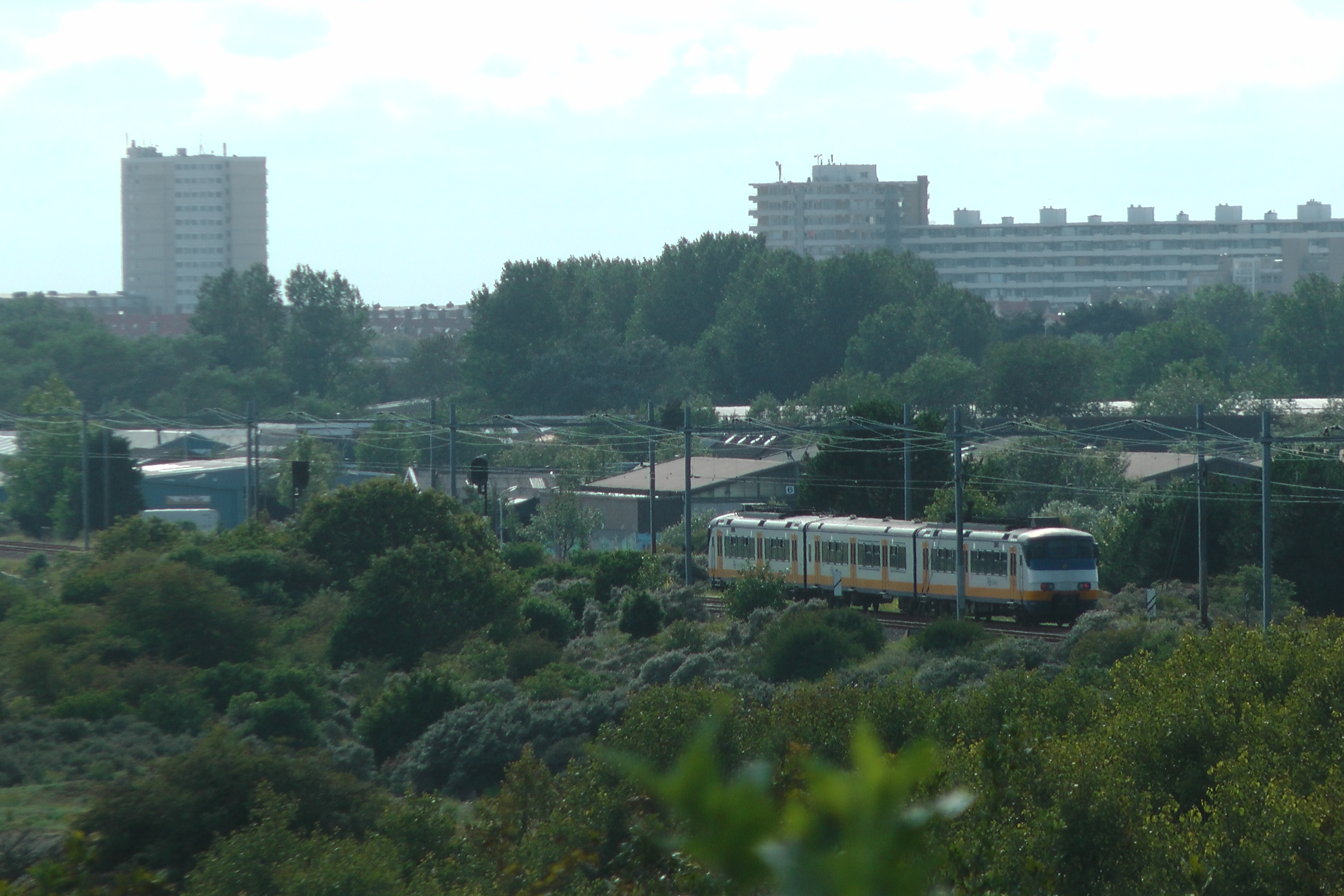 SGM stop train near dutch city Zandvoort, 2011.